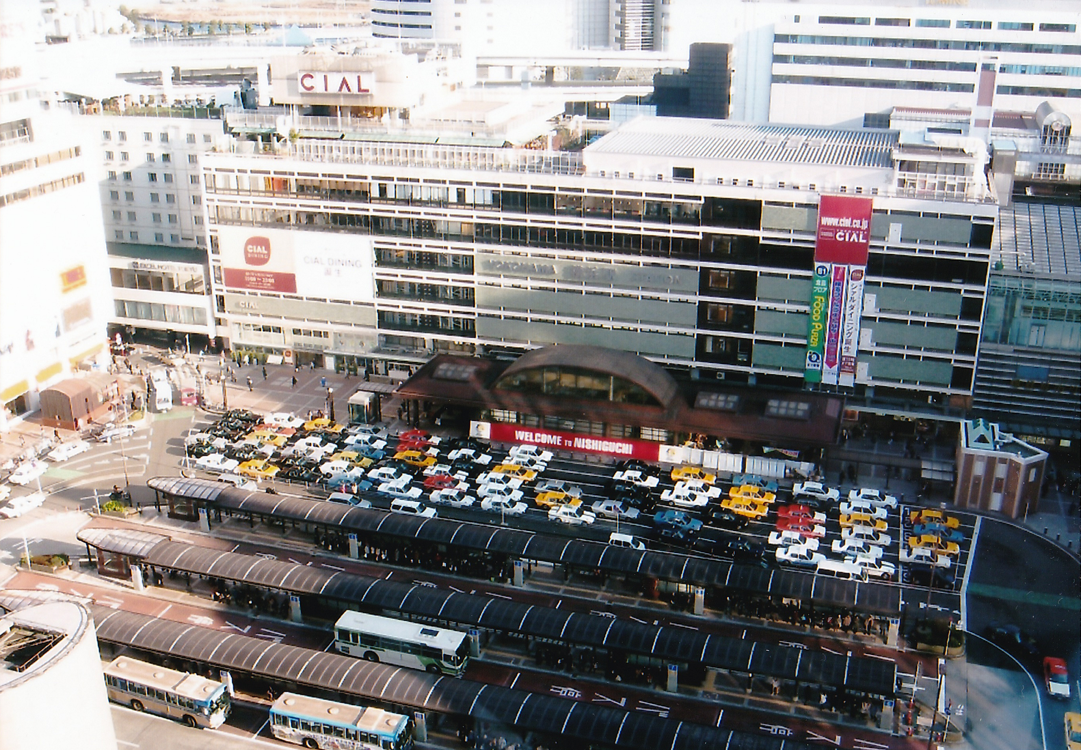 Whole view of Yokohama Station West Exit 2004